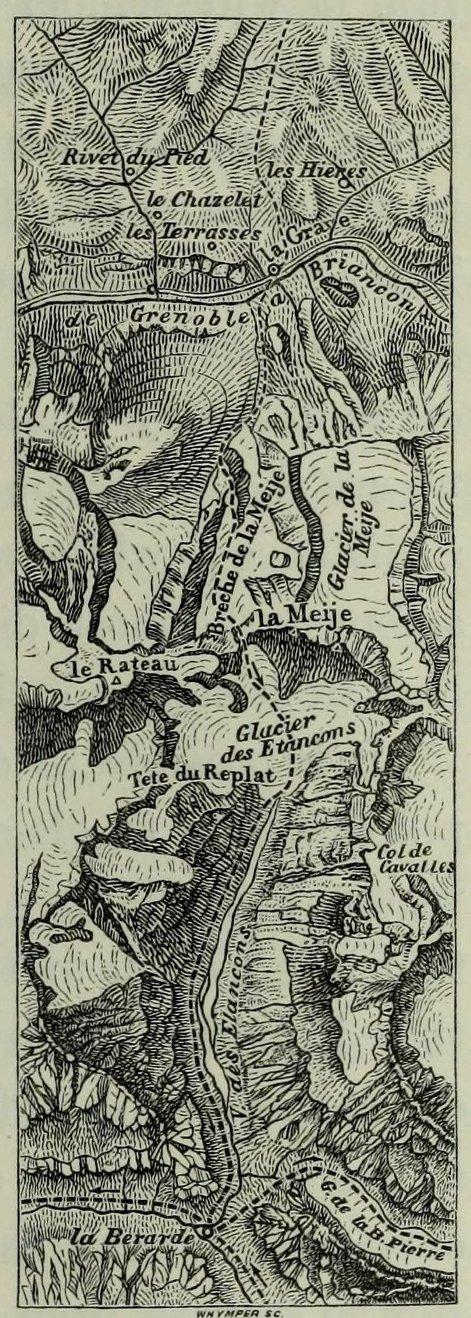 Image on page 237 of Scrambles amongst the Alps